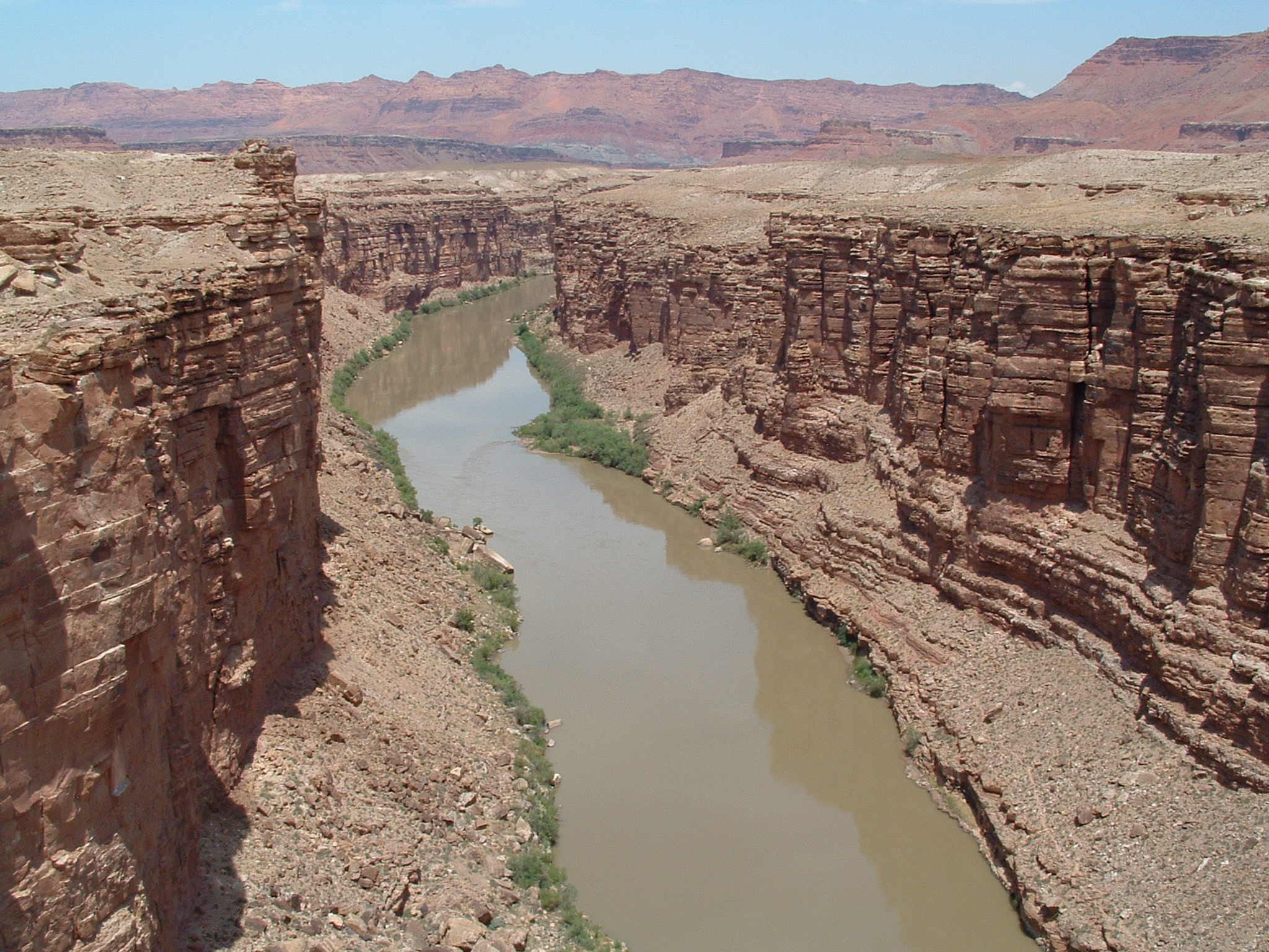 A view of the Colorado River in Marble Canyon — from the Navajo Bridge, near Lee's Ferry, Arizona.